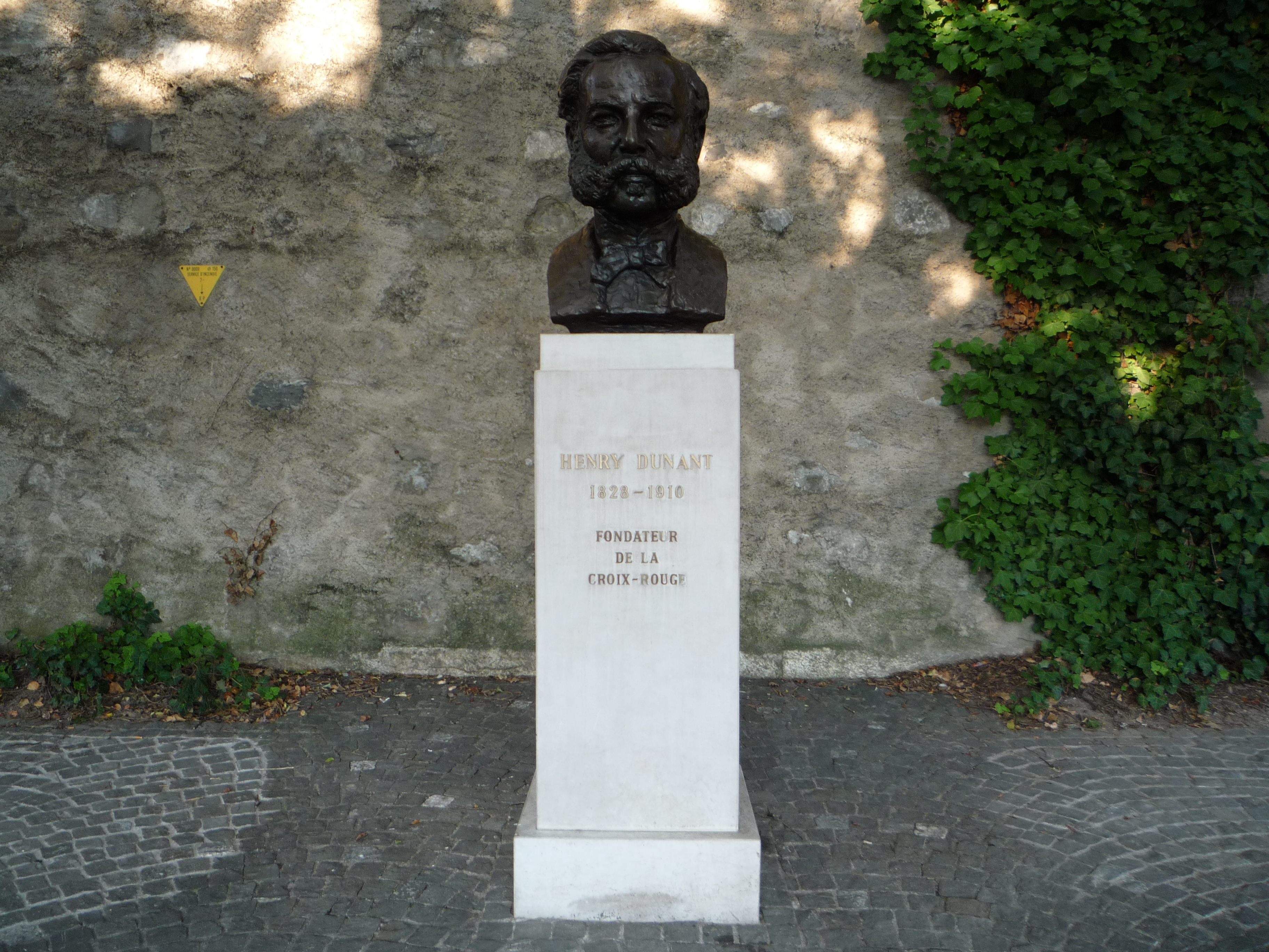 This bust is near the Place Neuve, at the corner of the Rue de la Tertasse and ramp Treille in Geneva. It is the work of sculptor Luc Jaggi. The bust was unveiled June 2, 1980. This is a group of citizens who have raised the funds necessary to make this bust. Some 14,000 Swiss francs were collected both in German-speaking Switzerland French-speaking Switzerland.Bust created by sculptor Luc Jaggi (1887-1926) Source: Journal of Geneva: June 3, 1980